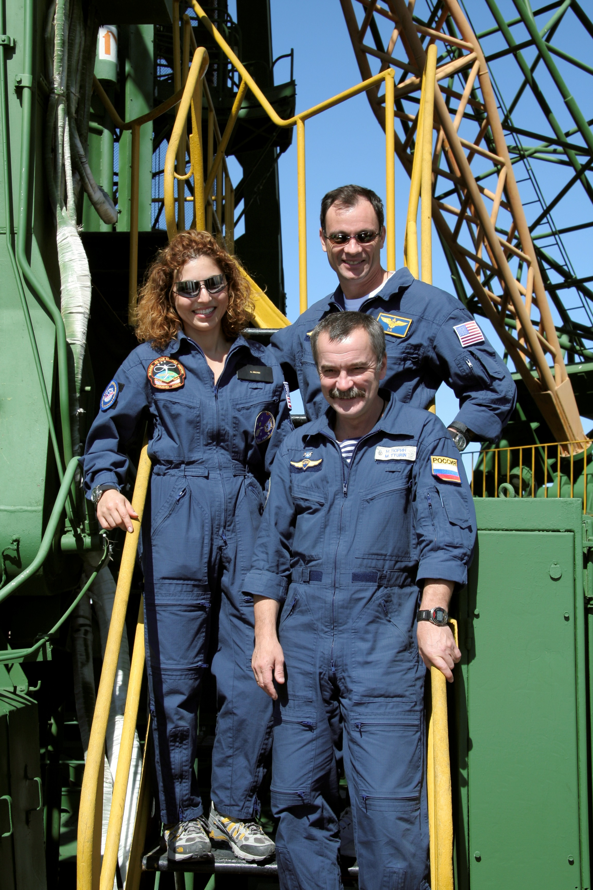 JSC2006-E-40122 (13 Sept. 2006) --- Astronaut Michael E. Lopez-Alegria (top right), Expedition 14 commander and NASA space station science officer; spaceflight participant Anousheh Ansari (left); and cosmonaut Mikhail Tyurin, flight engineer and Soyuz commander representing Russia's Federal Space Agency, pose for a photo at the launch pad at Baikonur Cosmodrome during their final dress rehearsal activity as they prepare for their launch Sept. 18 on a Soyuz TMA-9 spacecraft to the International Space Station.